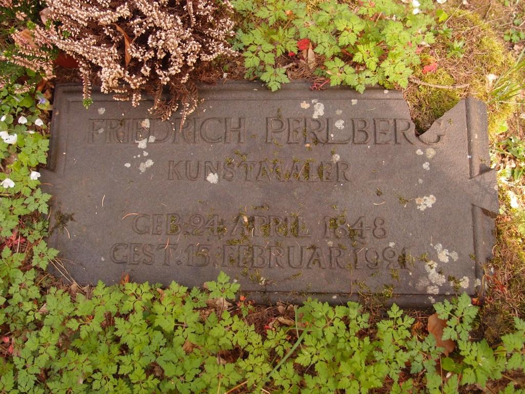 Grave of the painter Friedrich Perlberg (1848-1921) in Munich, Waldfriedhof, Old Section.